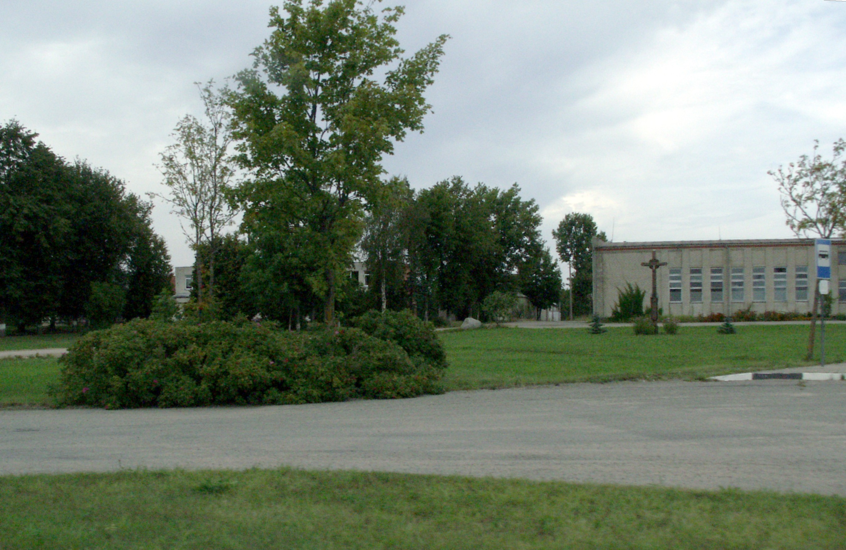 Kaukolikai in Skuodas district, Lithuania